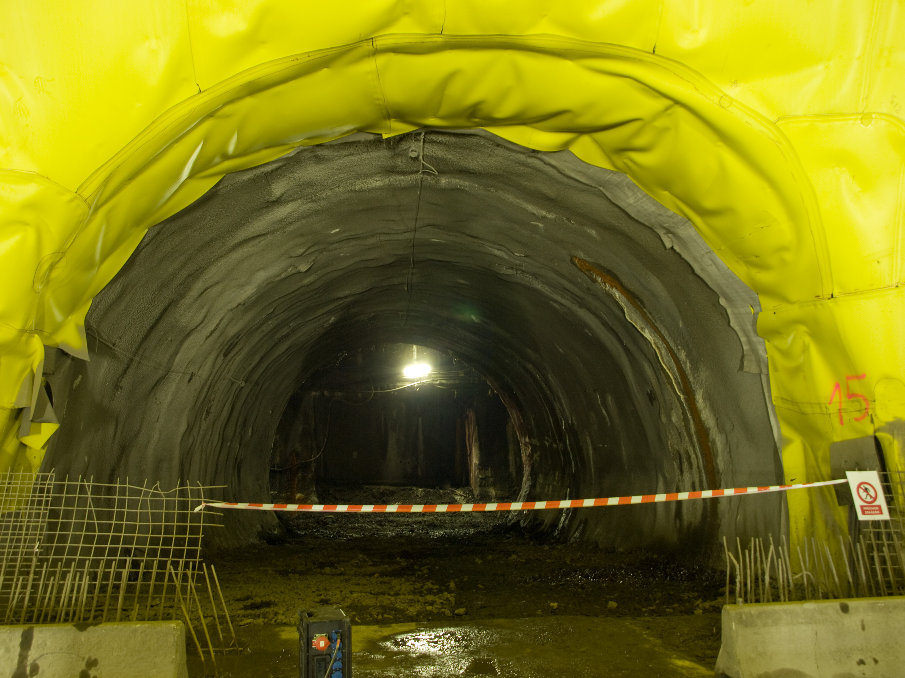 Špejchar – Troja segment, Open doors days in Blanka tunnel in september 2010, Prague